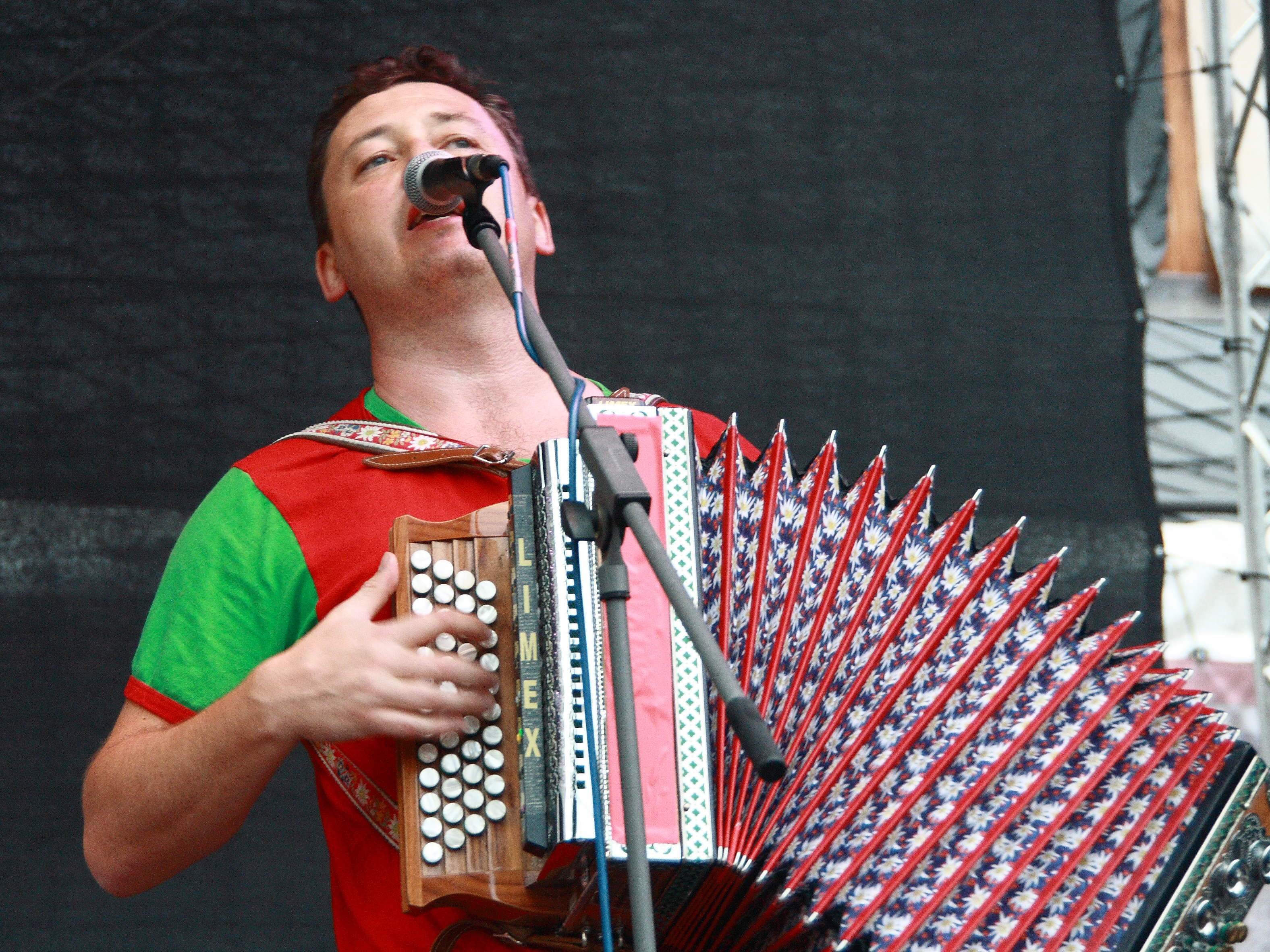 Hans-Peter Falkner from Attwenger at TFF.Rudolstadt 2010